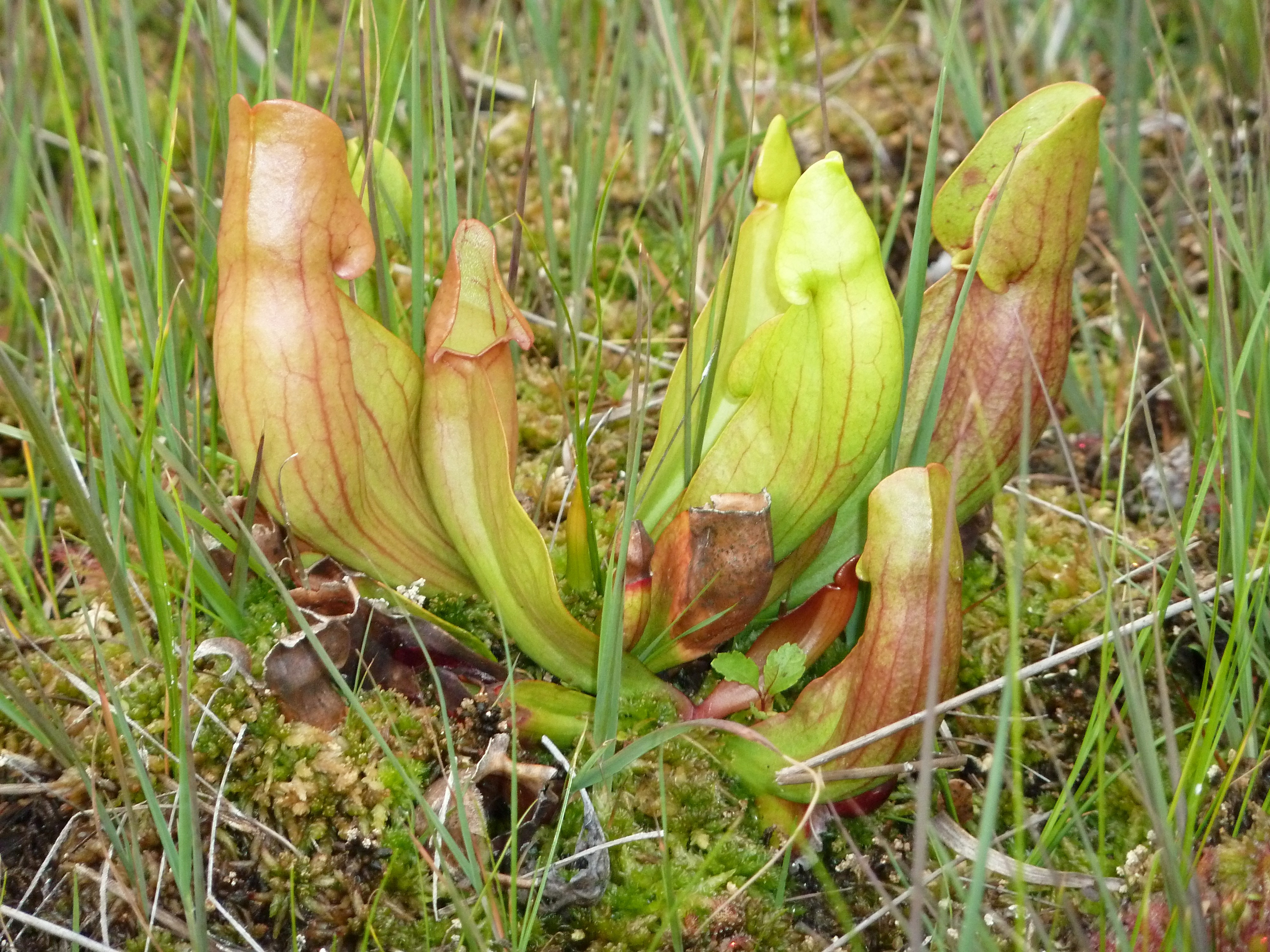 Purple Pitcher Plant (Sarracenia purpurea) - Germany, Westphalia, Münsterland